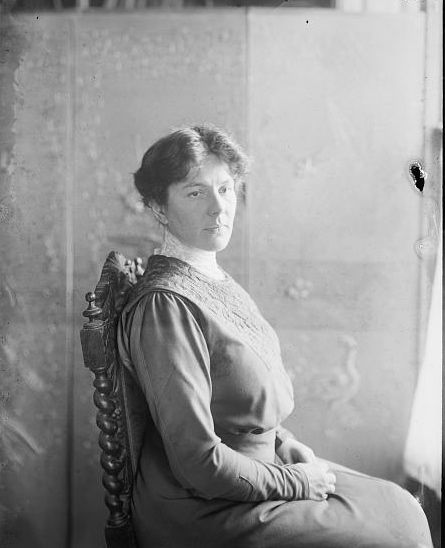 American opera singer Louise Homer